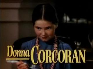 Cropped screenshot of Donna Corcoran from the film Scandal at Scourie